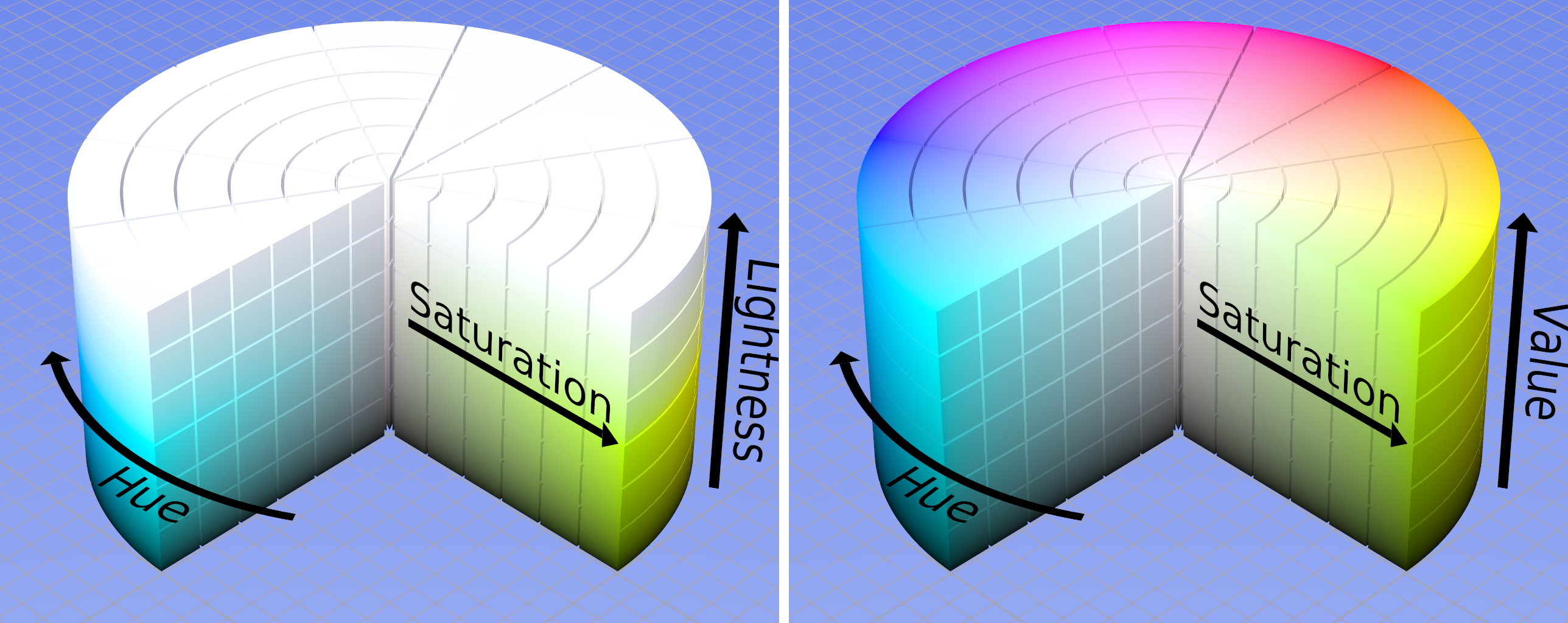 Comparison of the HSL and HSV color spaces when mapped to a cylinder, with corner cut-away shown.